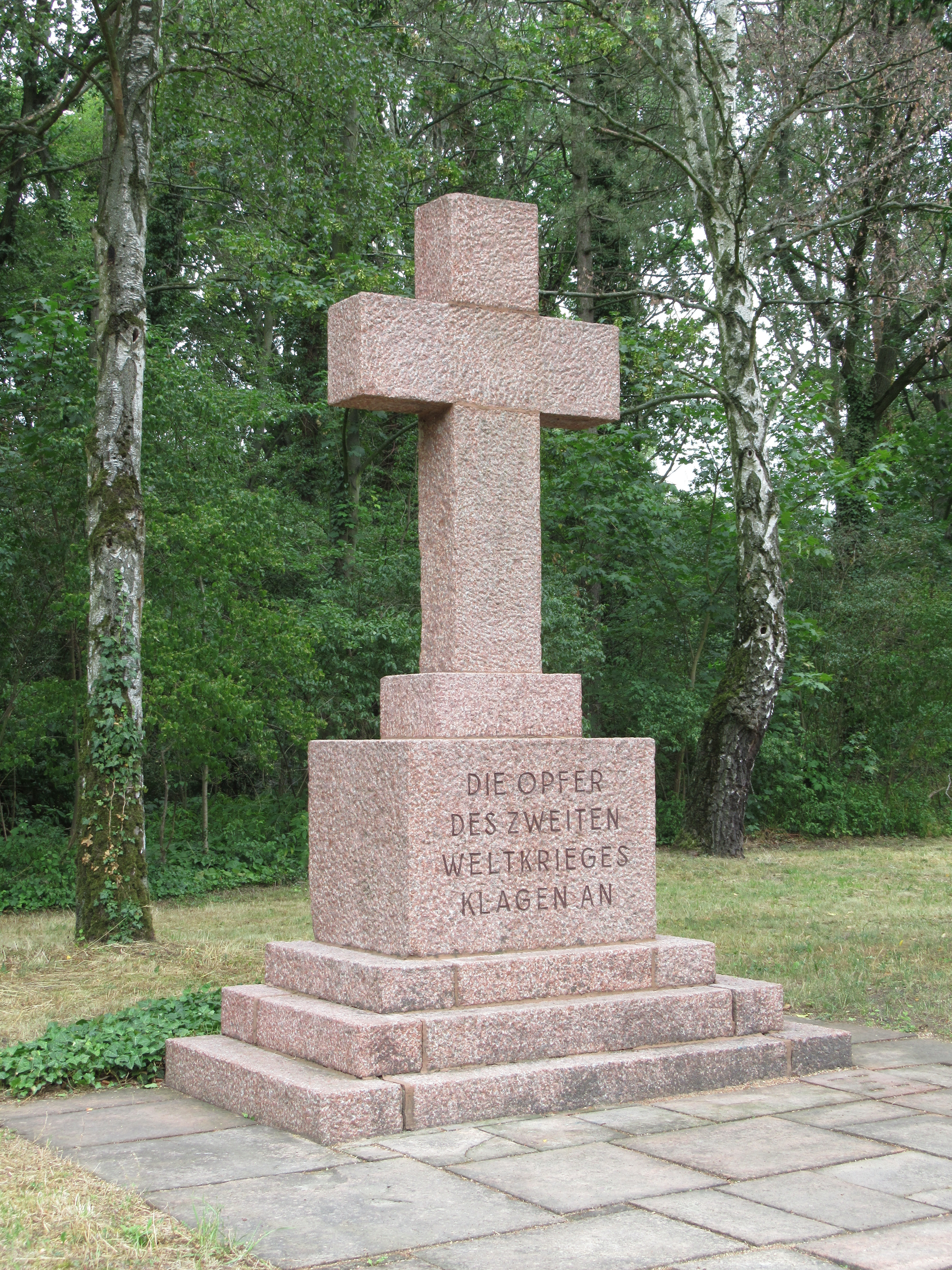 Leipzig War Memorial Südfriedhof